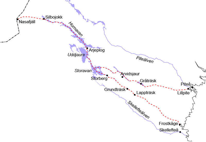 Summer transportation paths between the coast and Nasafjäll during the 17th century. Source: Hoppe, Vägarna inom Norrbottens län, s. 108-109.